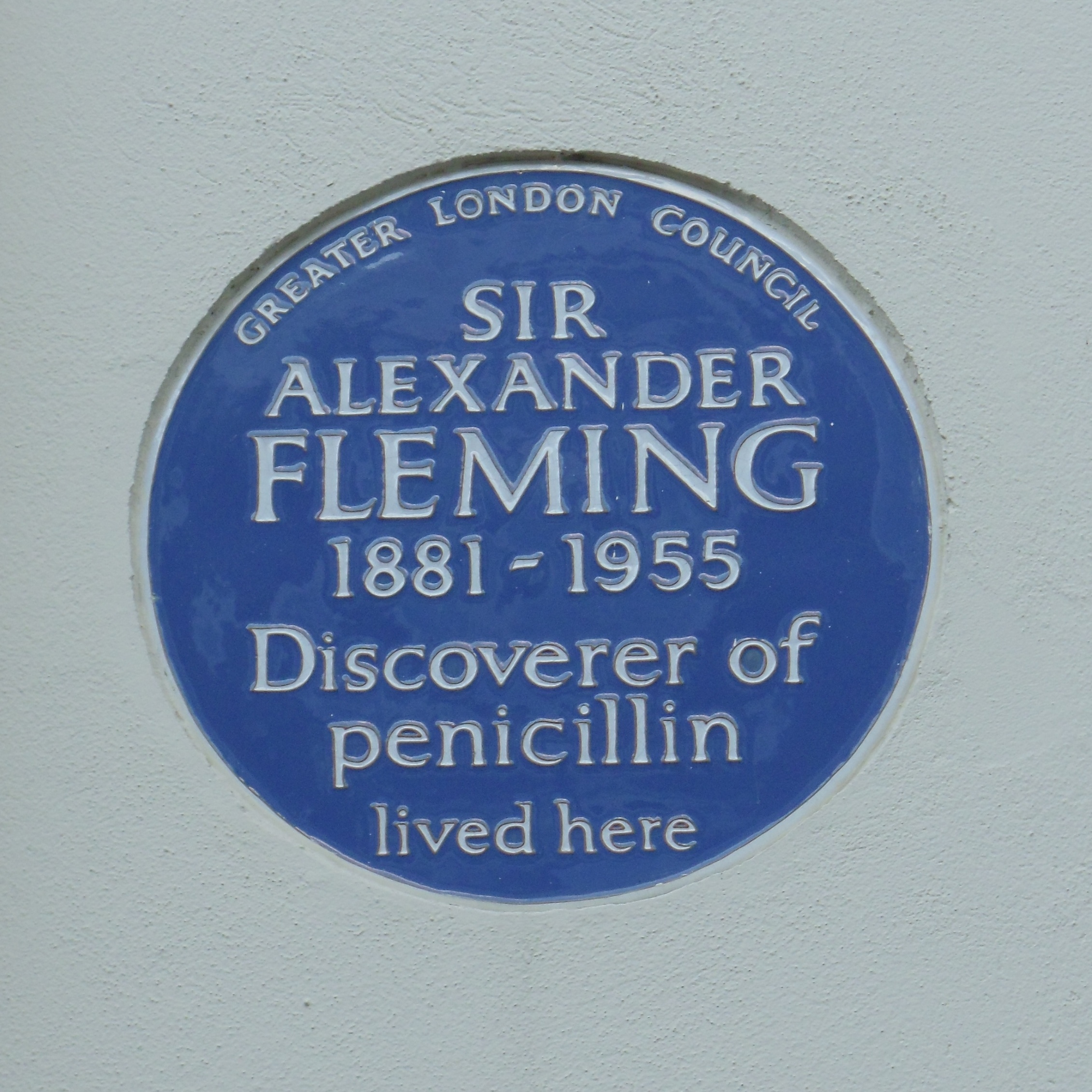 Plaque attached to the house Sir Alexander Fleming lived in at 20 Danvers Street, Chelsea, London, United Kingdom.